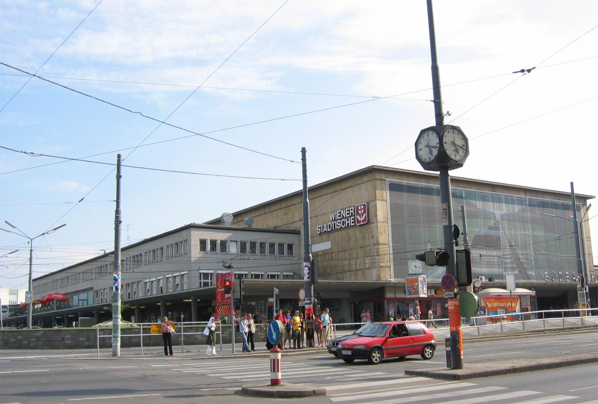 Vienna Südbahnhof (southern station)